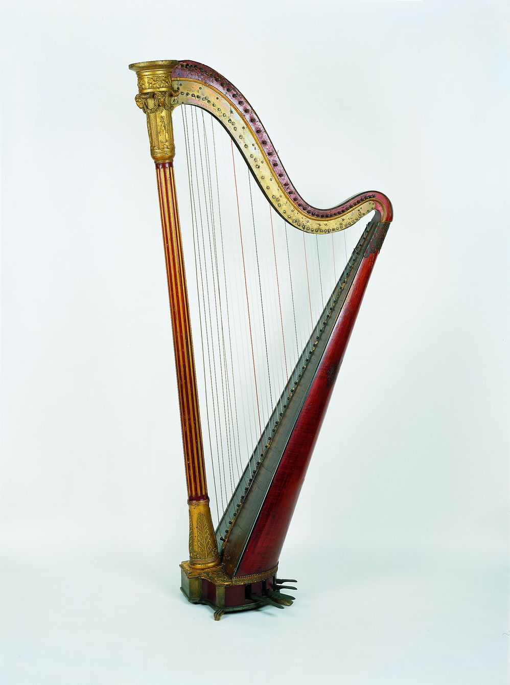 The music room of the Romàntic Museum